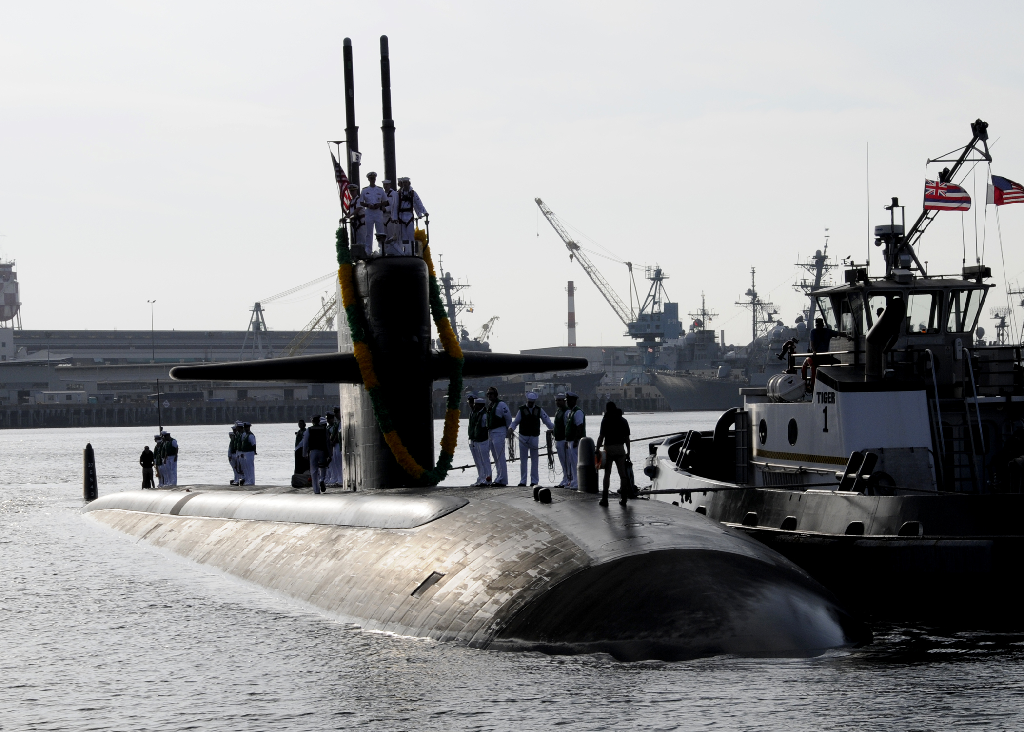 JOINT BASE PEARL HARBOR-HICKAM, Hawaii (Dec. 17, 2010) The Los Angeles-class submarine USS Olympia (SSN 717) returns to Joint Base Pearl Harbor-Hickam after completing a scheduled deployment to the western Pacific region. (U.S. Navy photo by Mass Communication Specialist 2nd Class Ronald Gutridge/Released)